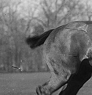 Polo pony docked tail [between 1910 and 1915]. See source image for provenance.